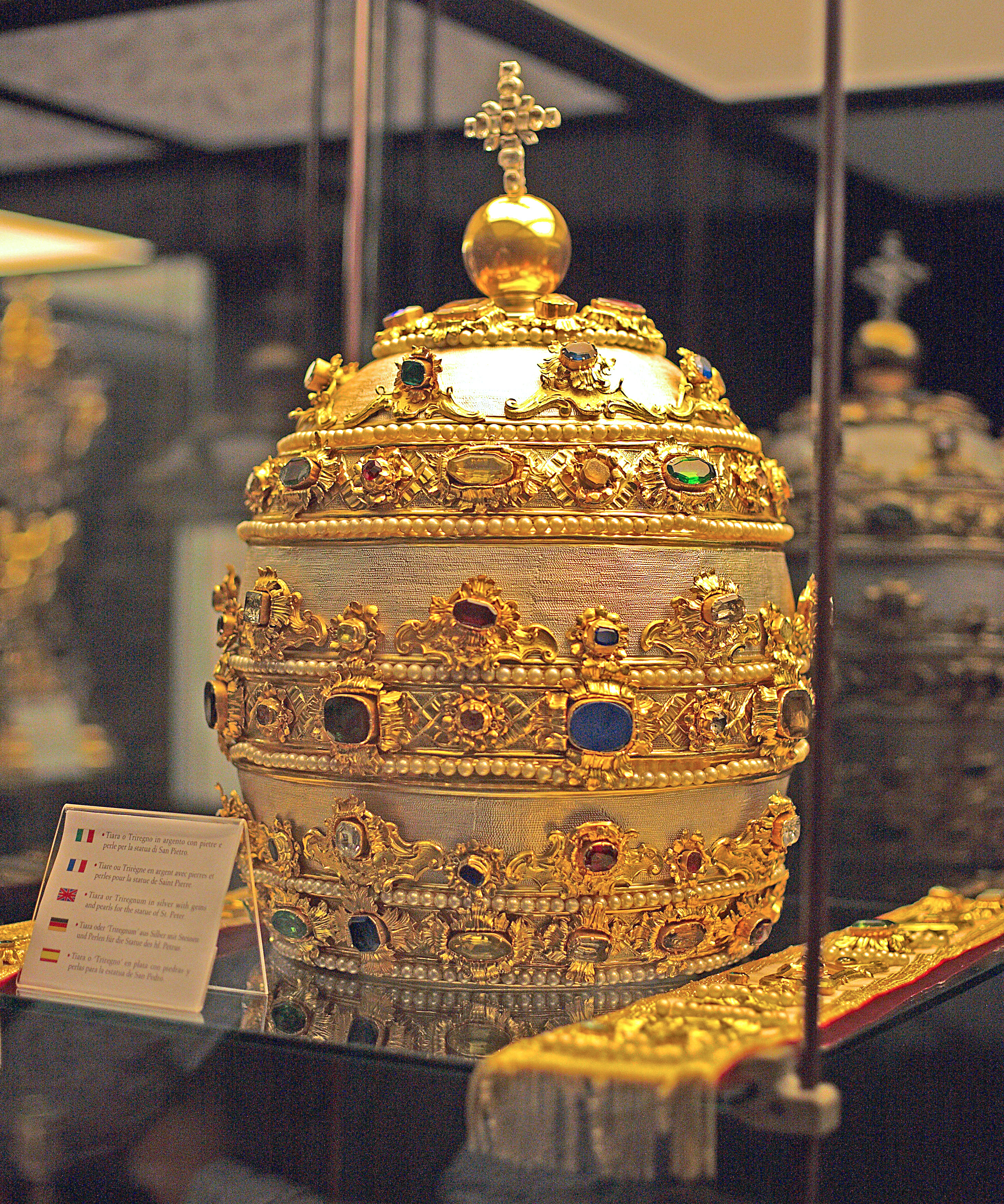 Papal Tiara in silver with gems and pearls in the Treasury of the Basilica of St. Peter at the Vatican.